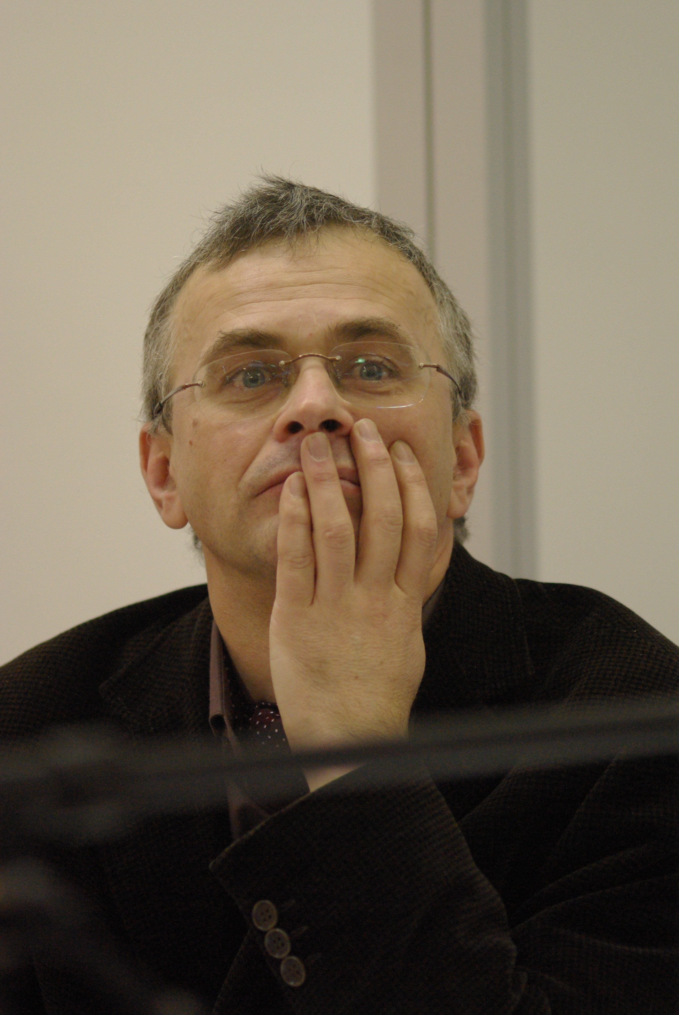 Russian literary critic Nikita Yeliseyev at the 12 Moscow International Fair of Intelectual Books, Non-Fiction 2010